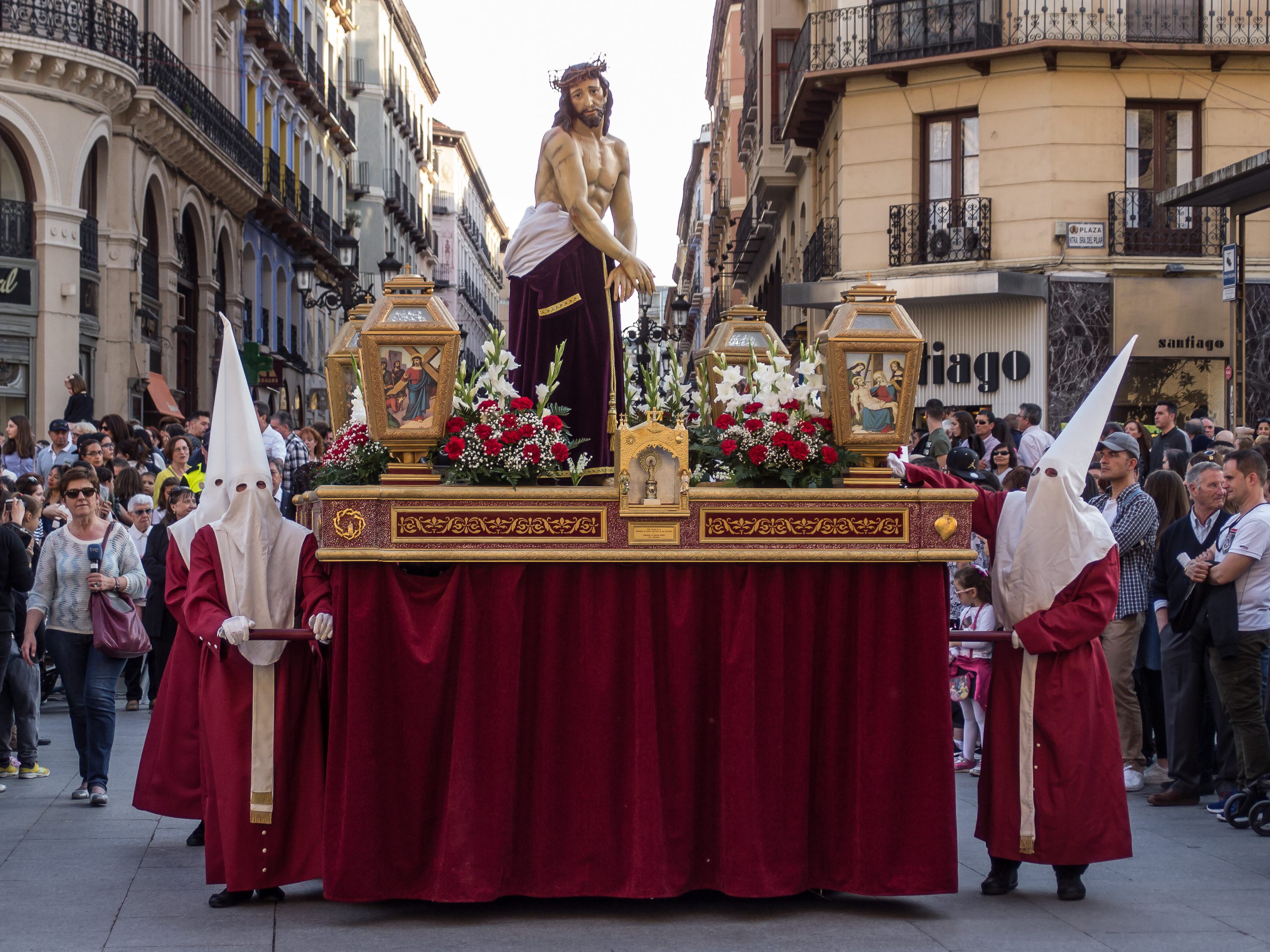 Desde la iglesia de San Juan de los Panetes la cofradía del Despojado recorrió las calles zaragozanas en una tarde de Jueves Santo primaveral. This is a photography of a Folklore festival in Spain (Wikidata id Q9075892).